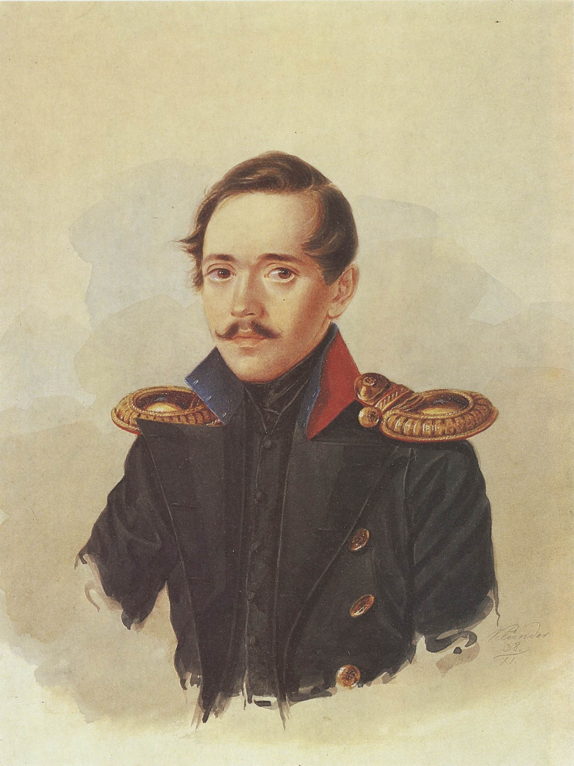 Russian poet Mikhail Yurievich Lermontov